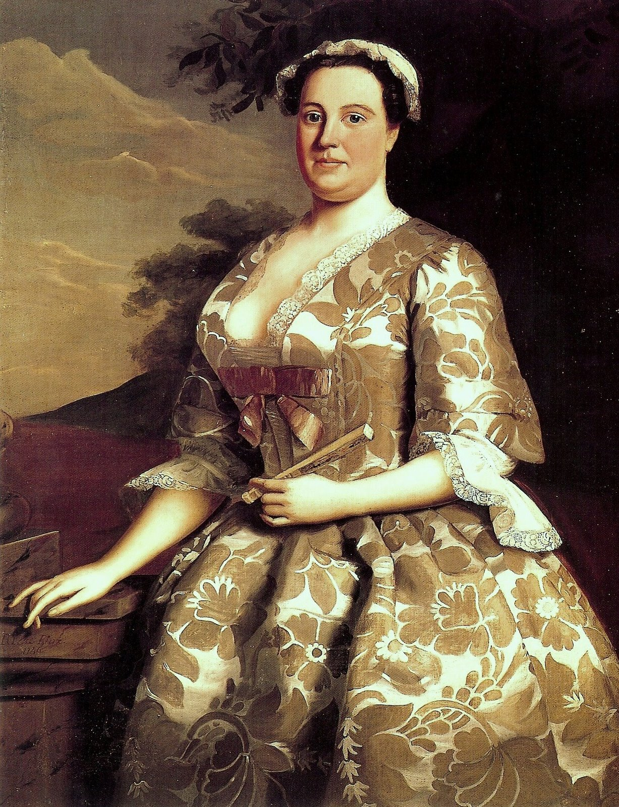 Mrs Willis is wearing a gown in imported Spitalfields silk brocade designed by Ann Maria Garthwaite in June 1743 (the watercolour design for the silk survives).